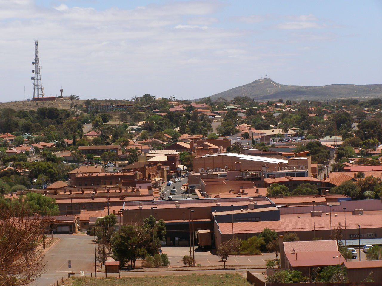 View across Whyalla from the Hummock Hill lookout, Whyalla, South Australia